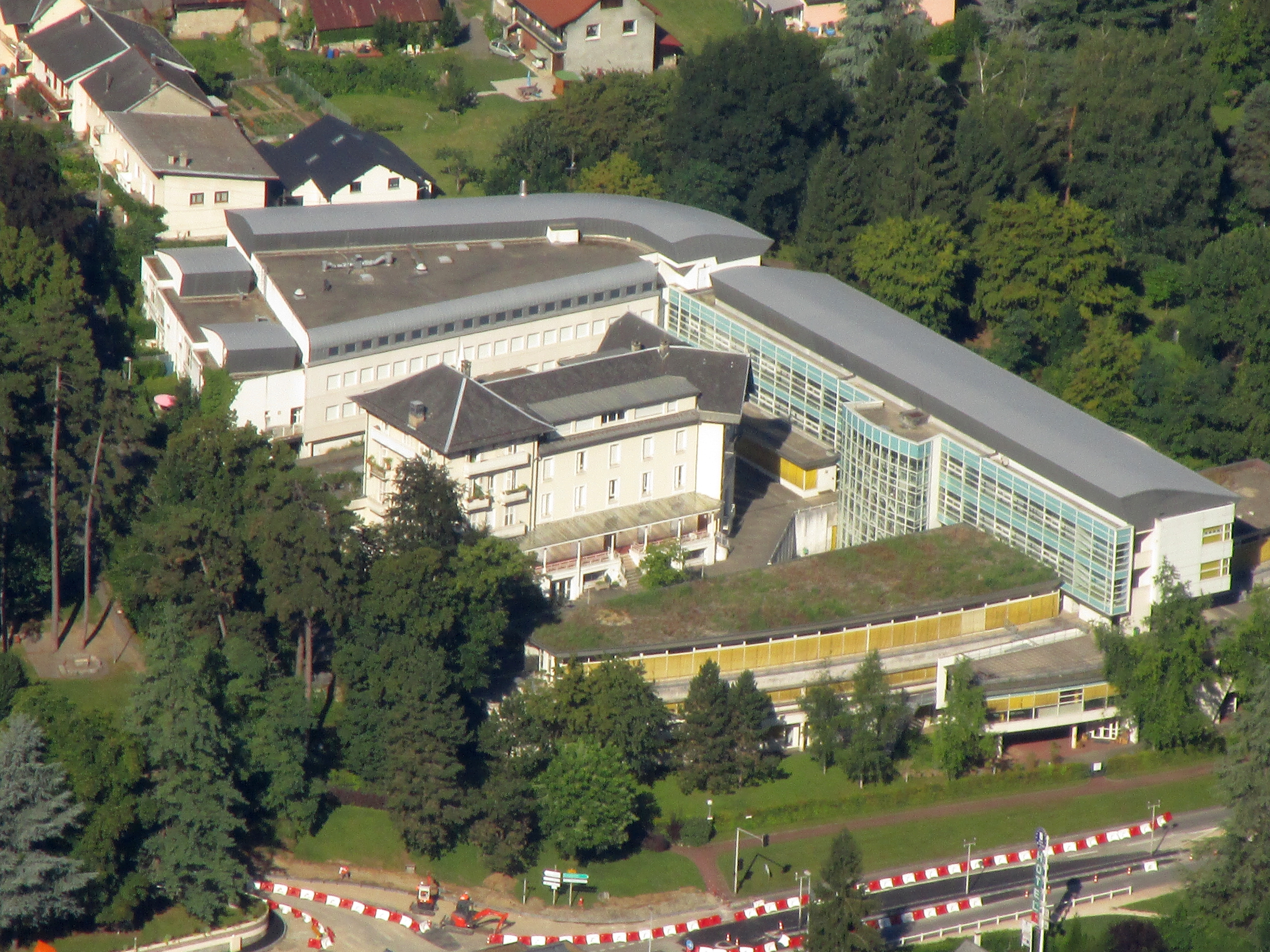 The hotel school of Challes-les-Eaux on August 3, 2016.